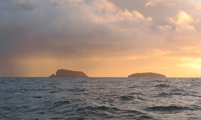 Seana Chnoc and Bearasaigh, near to Seana Chnoc [hill or Mountain], Na h-Eileanan an Iar, Great Britain. The Old Hill (left), a prominent landmark from both land and sea. The outermost of the Loch Roag islands and skerries and just under 100m. The small neighbouring rock is Stac nam Balg, the lower island is Bearasaigh. View from just off Gallan Head.